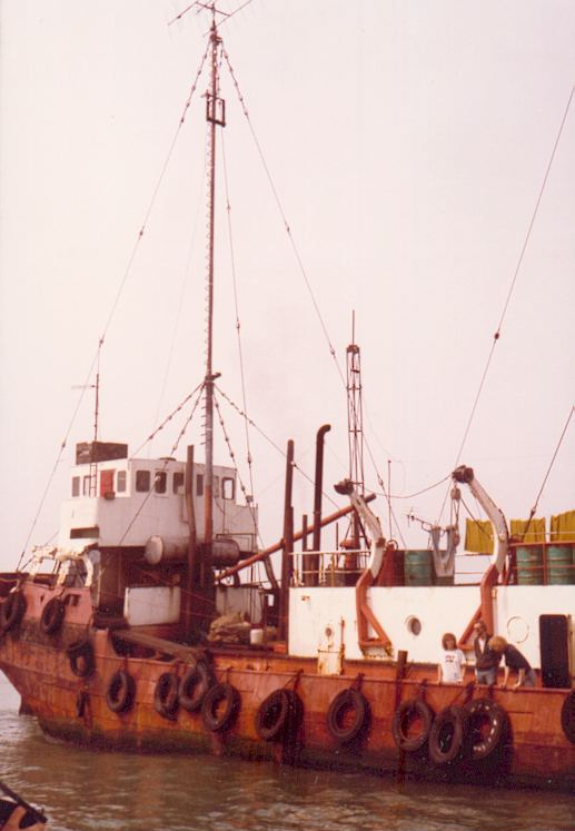 Pirate radio station Mi Amigo